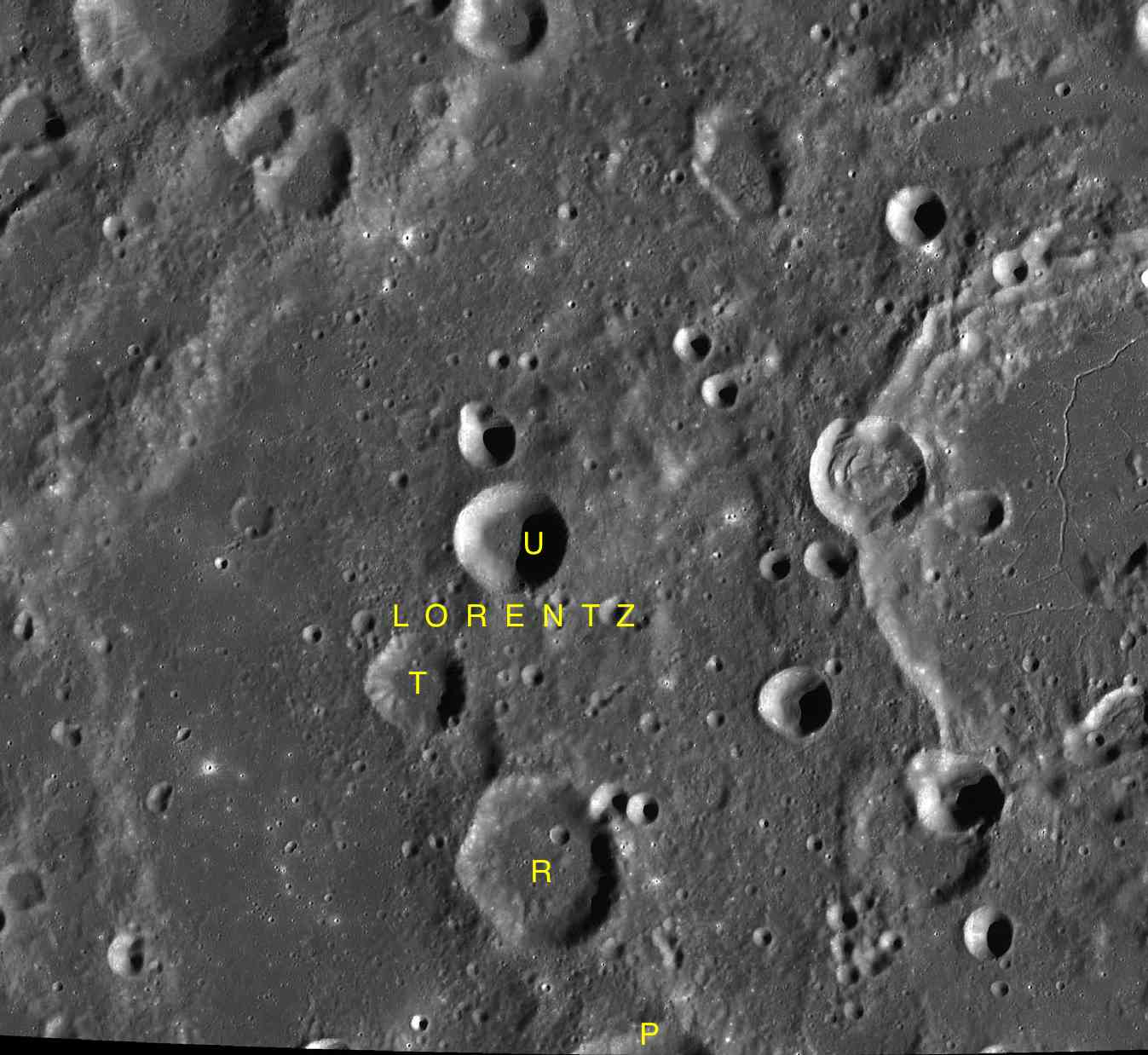 Part of the chart LAC-36 used for the presentation